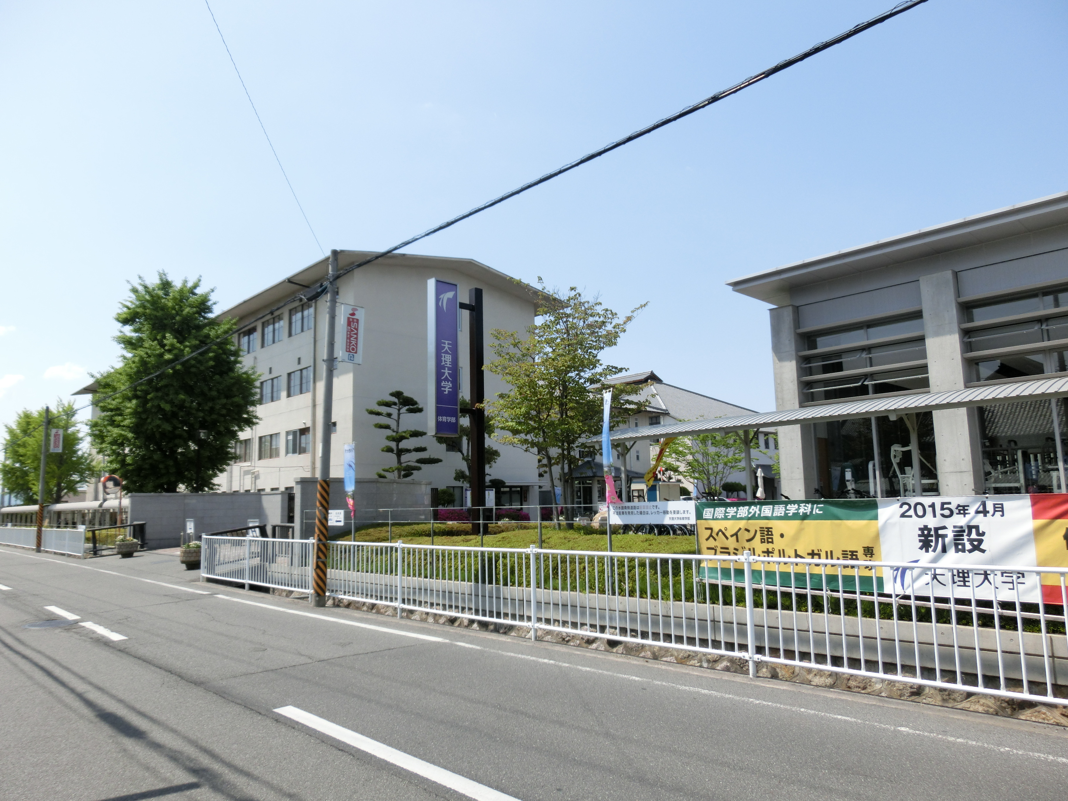 Tenri University Taiikugakubu Campus